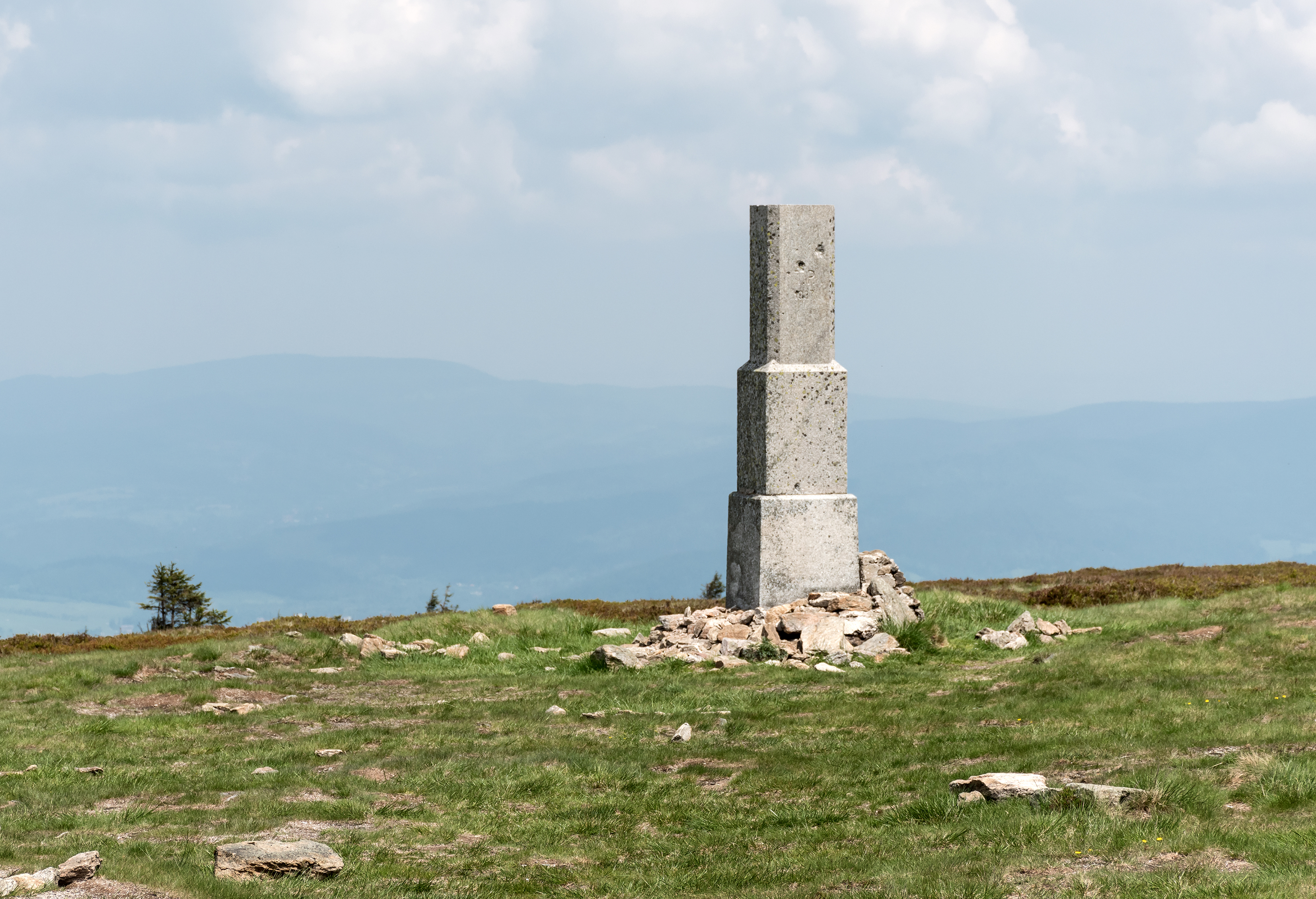 Top of Śnieżnik, trig point